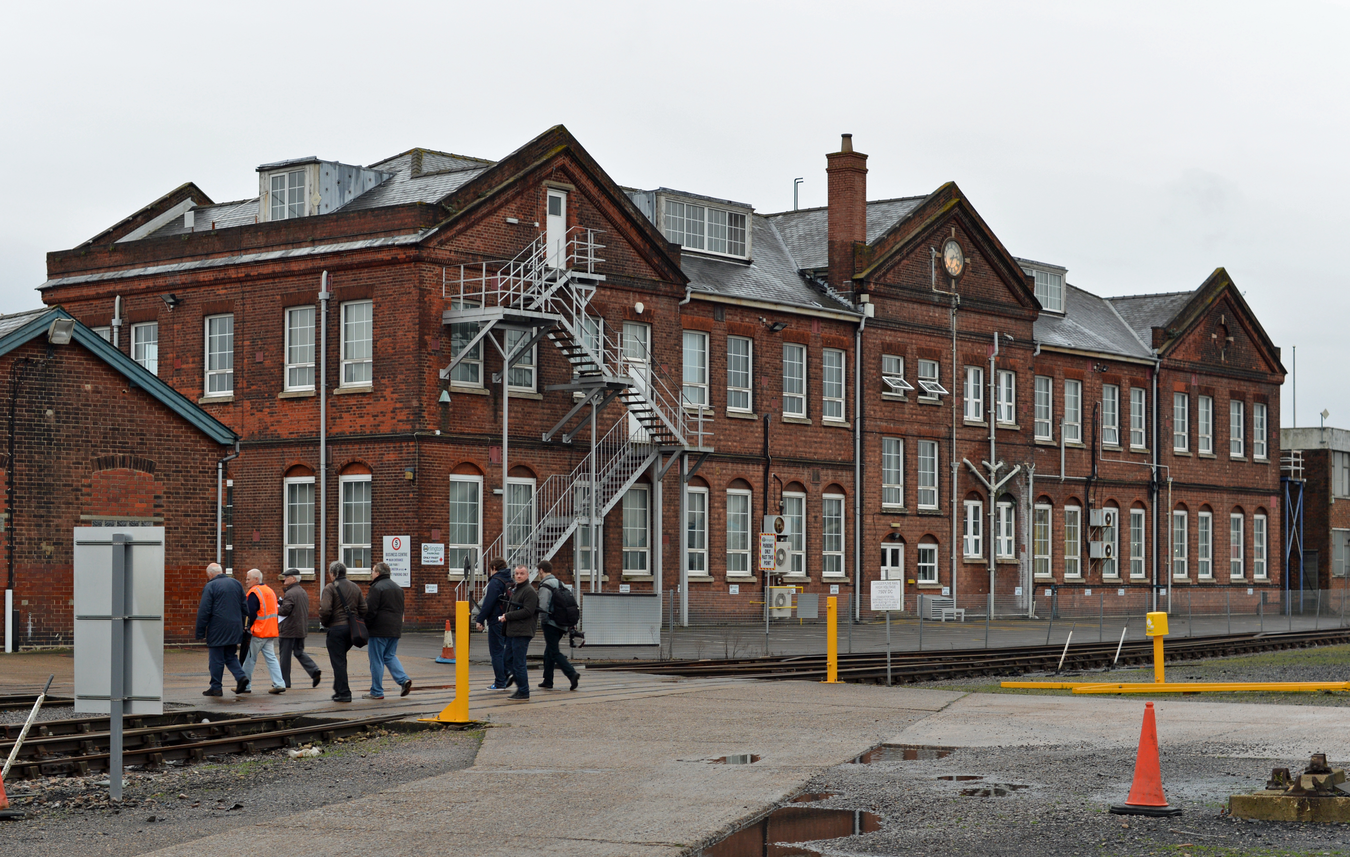 The management building shown from inside the works November 2014